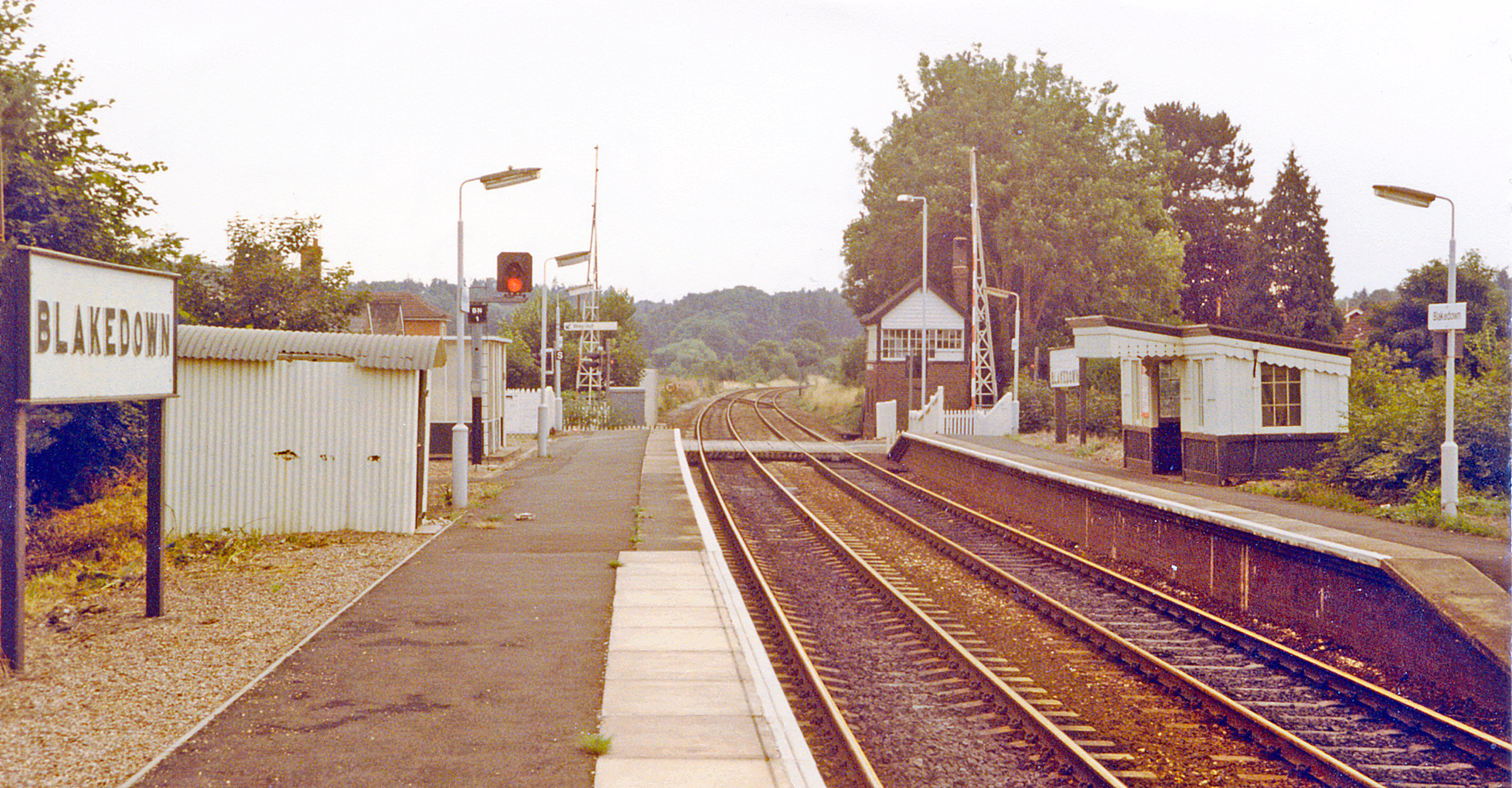 Blakedown station, 1983. View NE, towards Stourbridge Junction etc.: ex-GWR Worcester etc. - Kidderminster - Stourbridge Junction - Birmingham/Wolverhampton main line. It was 'Churchill & Blakedown' until 6/5/68.